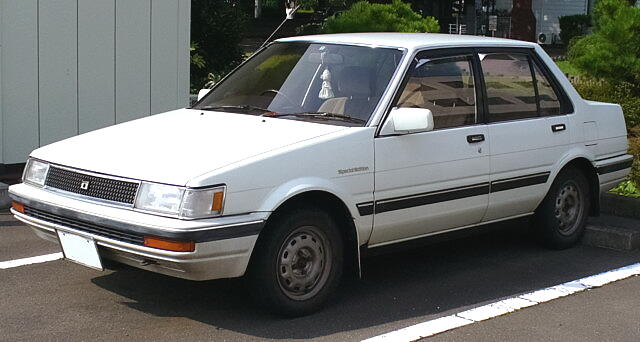 1985 Toyota Corolla 1500 GL Saloon Special (AE81) sedan, Japan